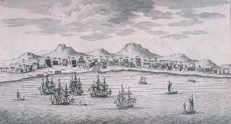 View of Batavia as it was formerly under the name of Iacatra.